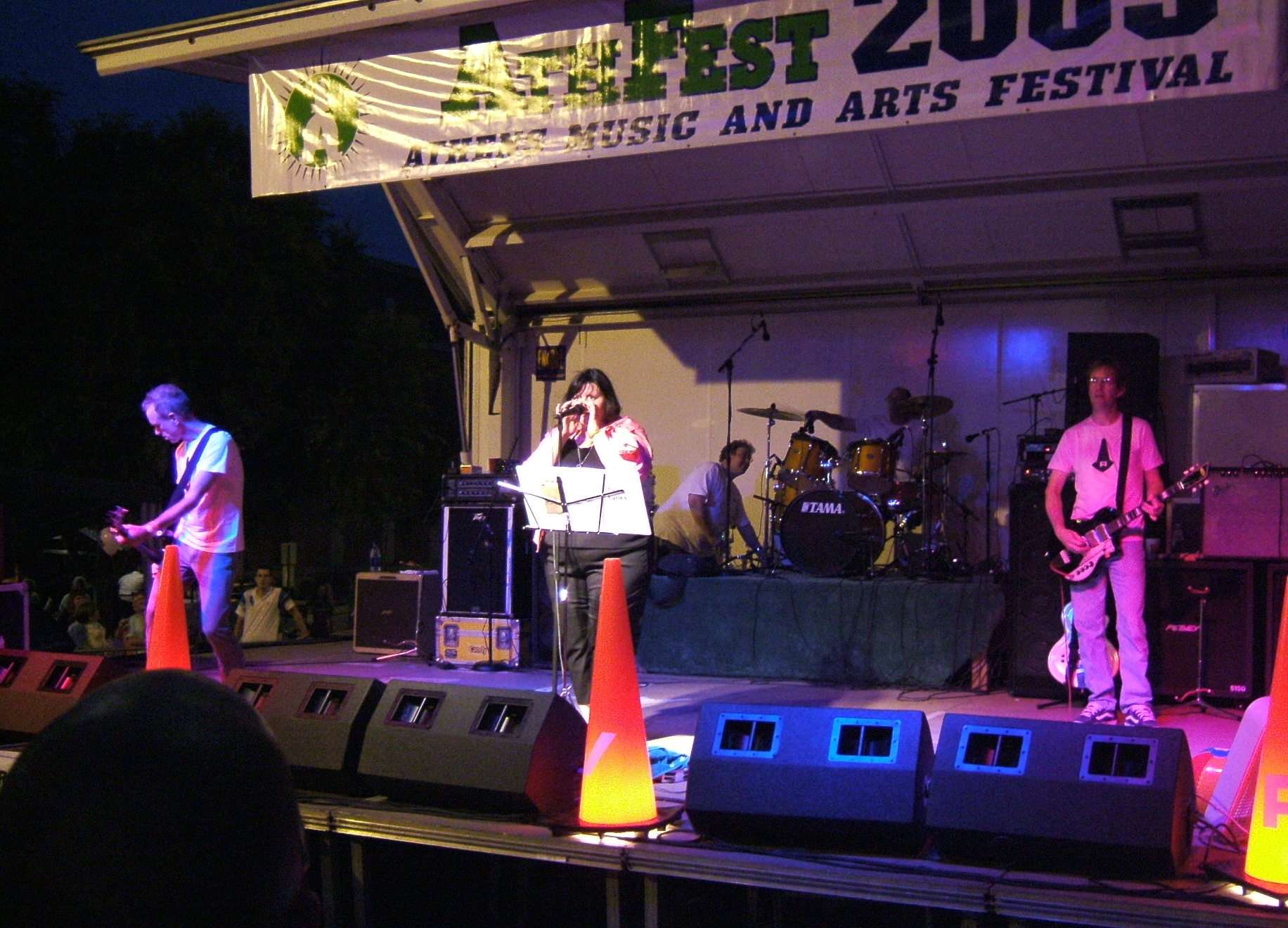 The band Pylon performing at AthFest 2005 in Athens, Georgia, USA, June 24, 2005. Michael Lachowski playing bass guitar (left). Vanessa Briscoe Hay singing (center). Randall Bewley playing guitar (right). Curtis Crowe drumming (back). Photographer: Owen King